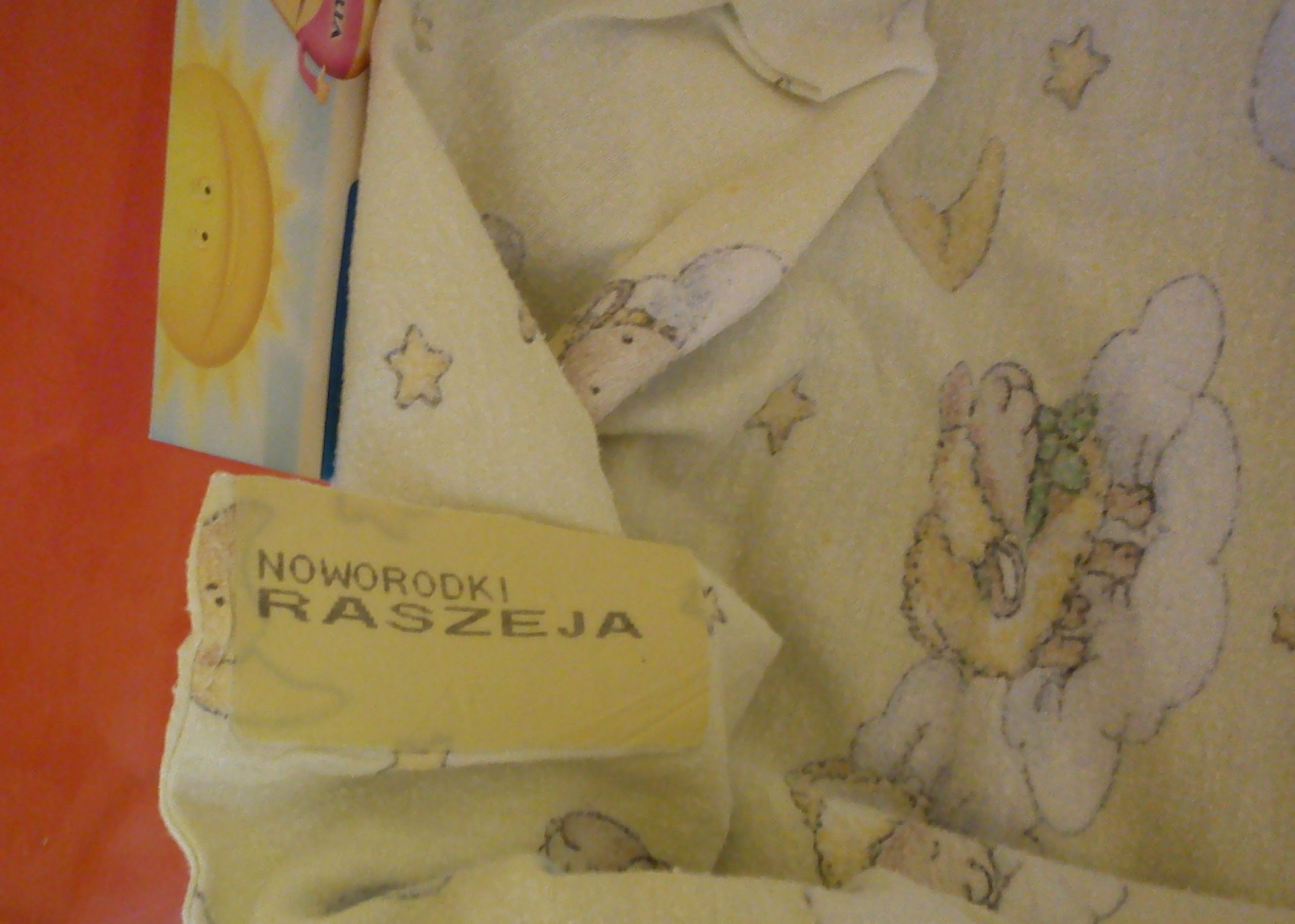 Newborn Hospital Ward Badge in Poznan's Raszeja Hospital.